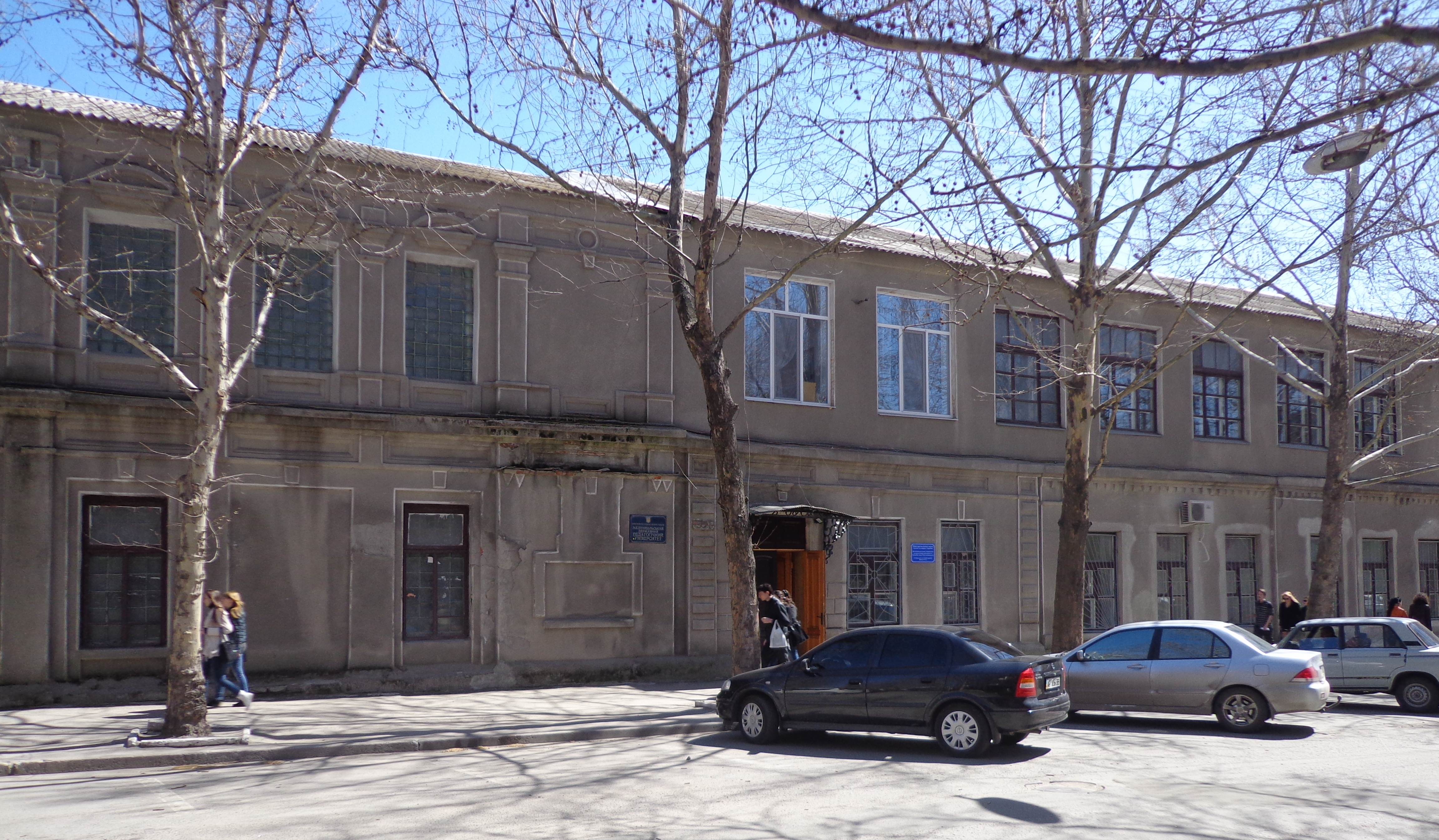 Melitopol State Pedagogic University (MDPU) in Karl Marx Street, Melitopol, Ukraine